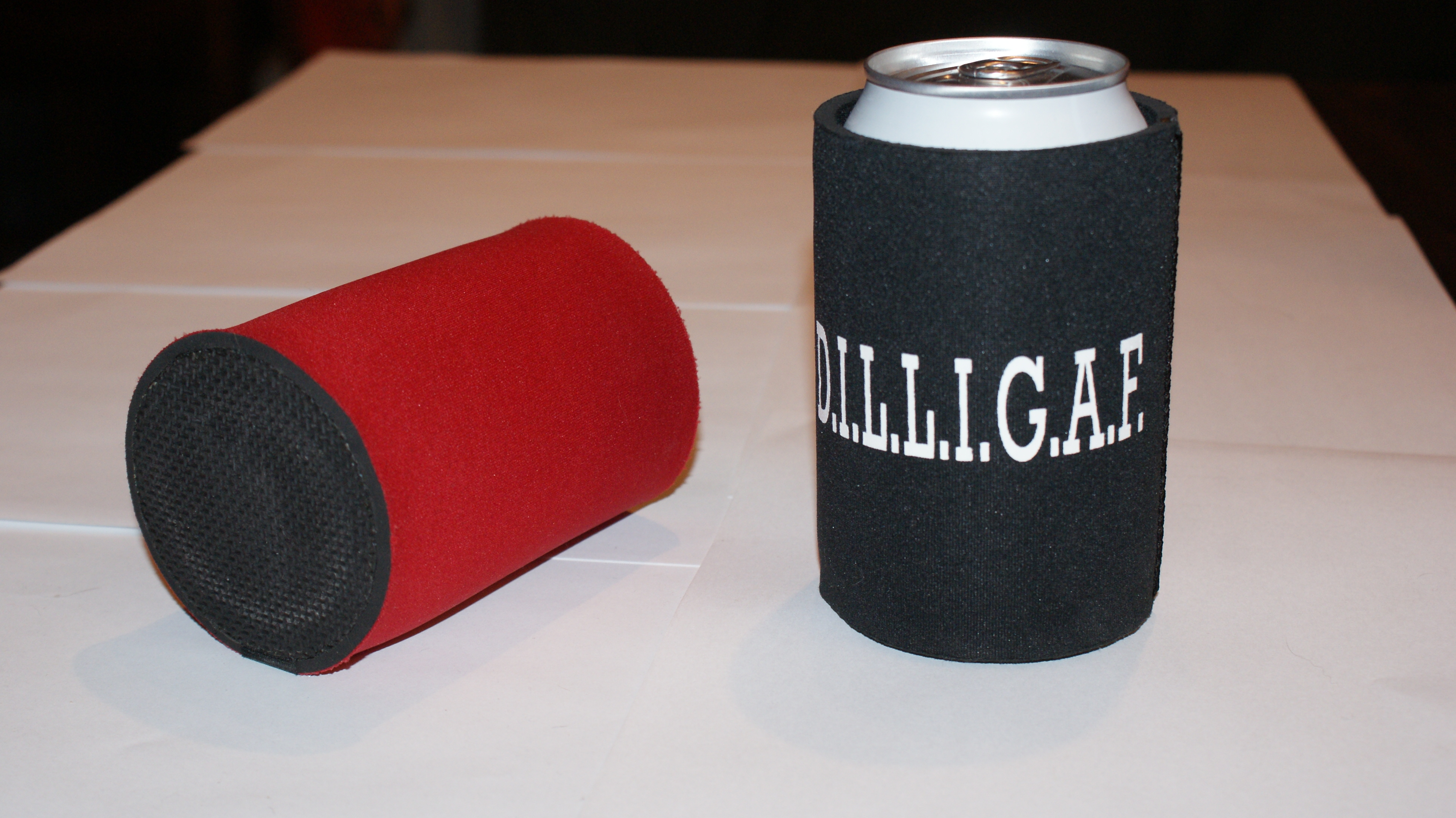 Koozie